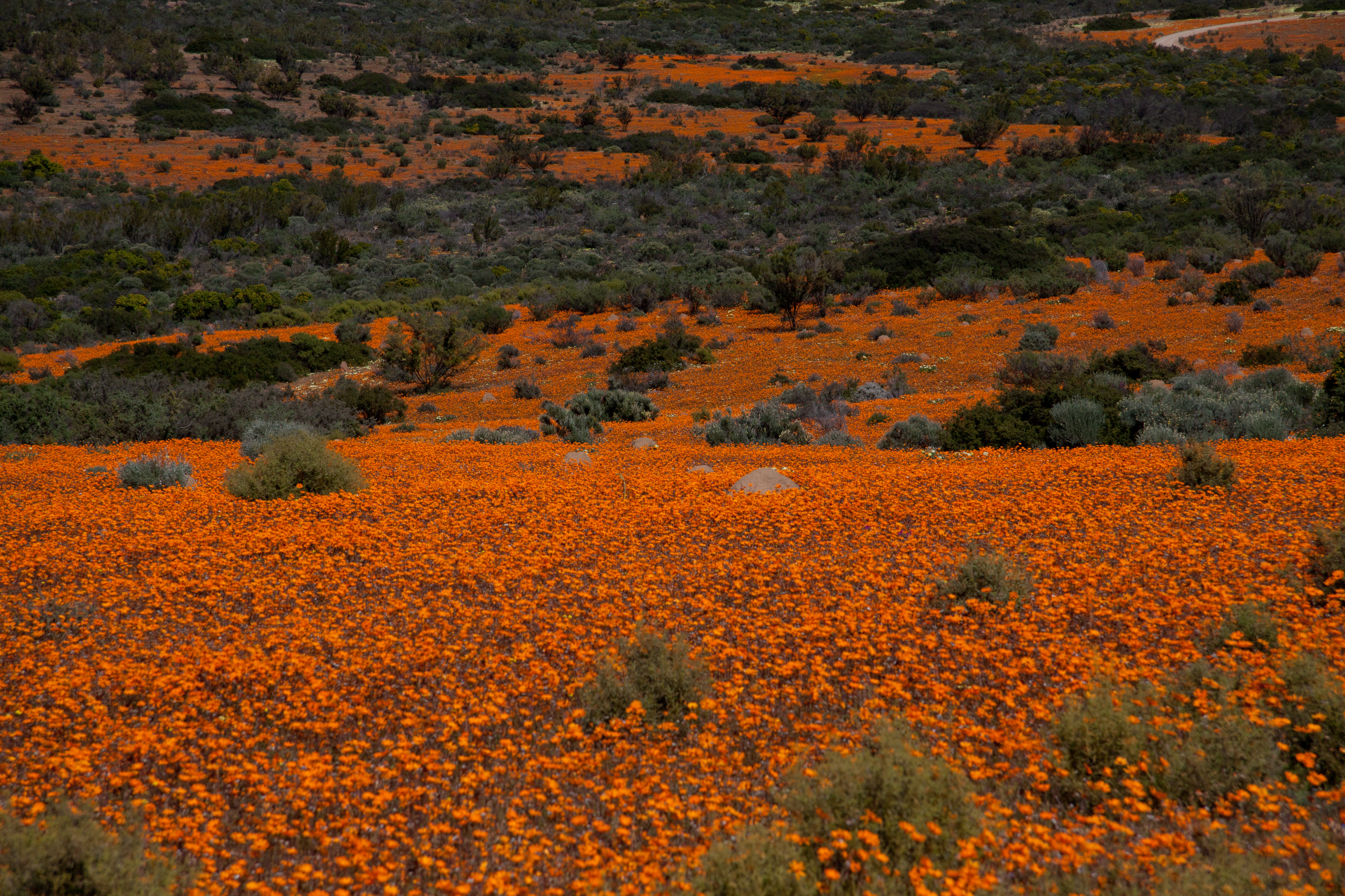 Carpets of Spring flowers, Namaqualand, Namaqua National Park - Skilpad Section, Northern Cape, South Africa